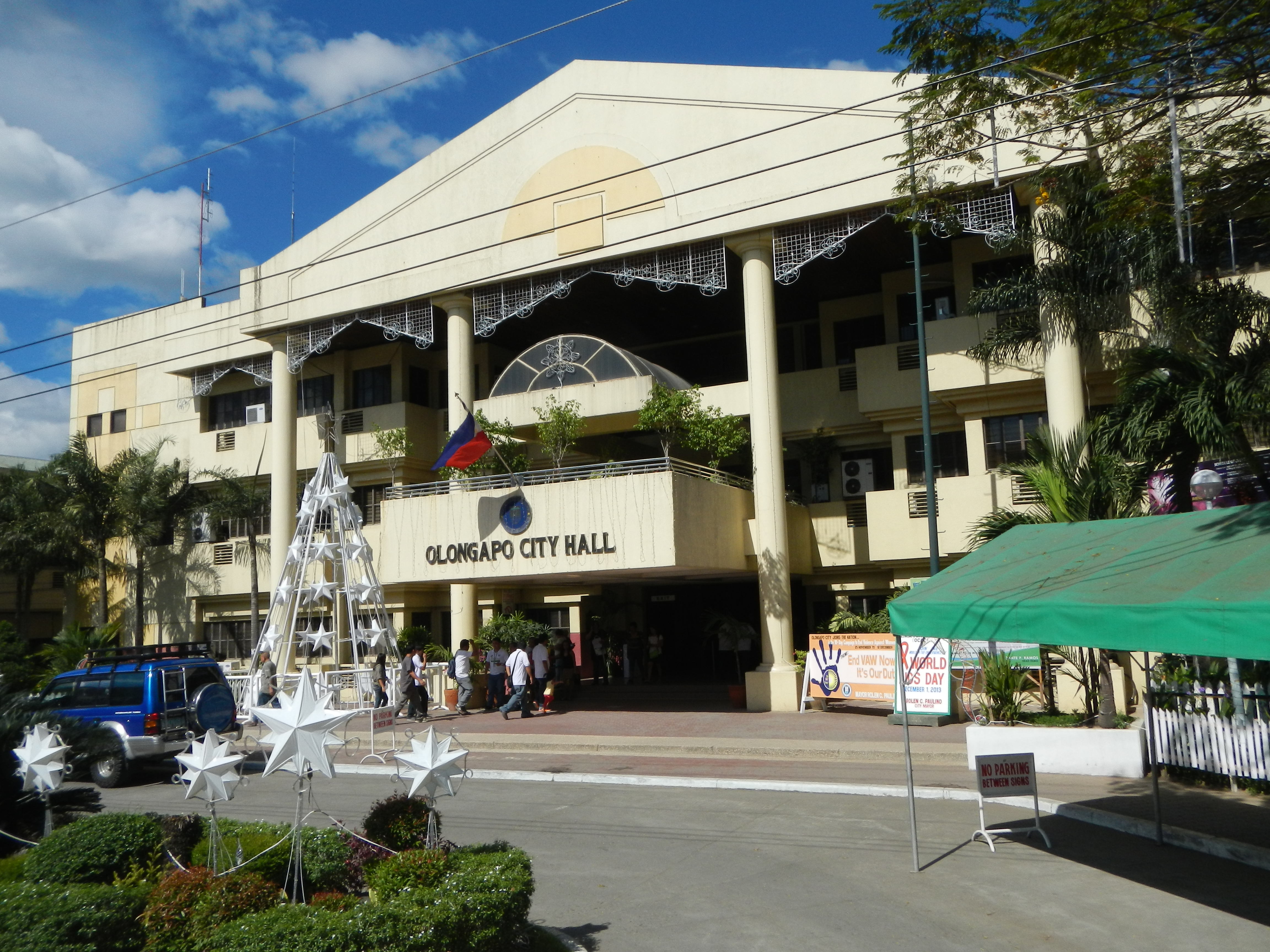 Upload Wizard photos -- (General description, 3-dimension angle by angle photography of this town, church & landmarks) -- the - Pan-Philippine Highway or Daang Maharlika or National Highway passing along the NLEX - North Luzon Expressway[1] a San Fernando, Pampanga [2] - Saulog Transit Inc. [3] at SM City San Fernando[4] Transport Terminal, Five Star Bus Company[5] operating - Bataan Transit Co., Inc. part of the List of bus companies of the Philippines [6] - List of bus operating companies [7] to Olongapo City Hall, located at Rizal Avenue, West Bajac-Bajac, City Proper, Rizal Triangle Multi-Purpose Center in the Rizal Triangle Park, Olongapo City[8]